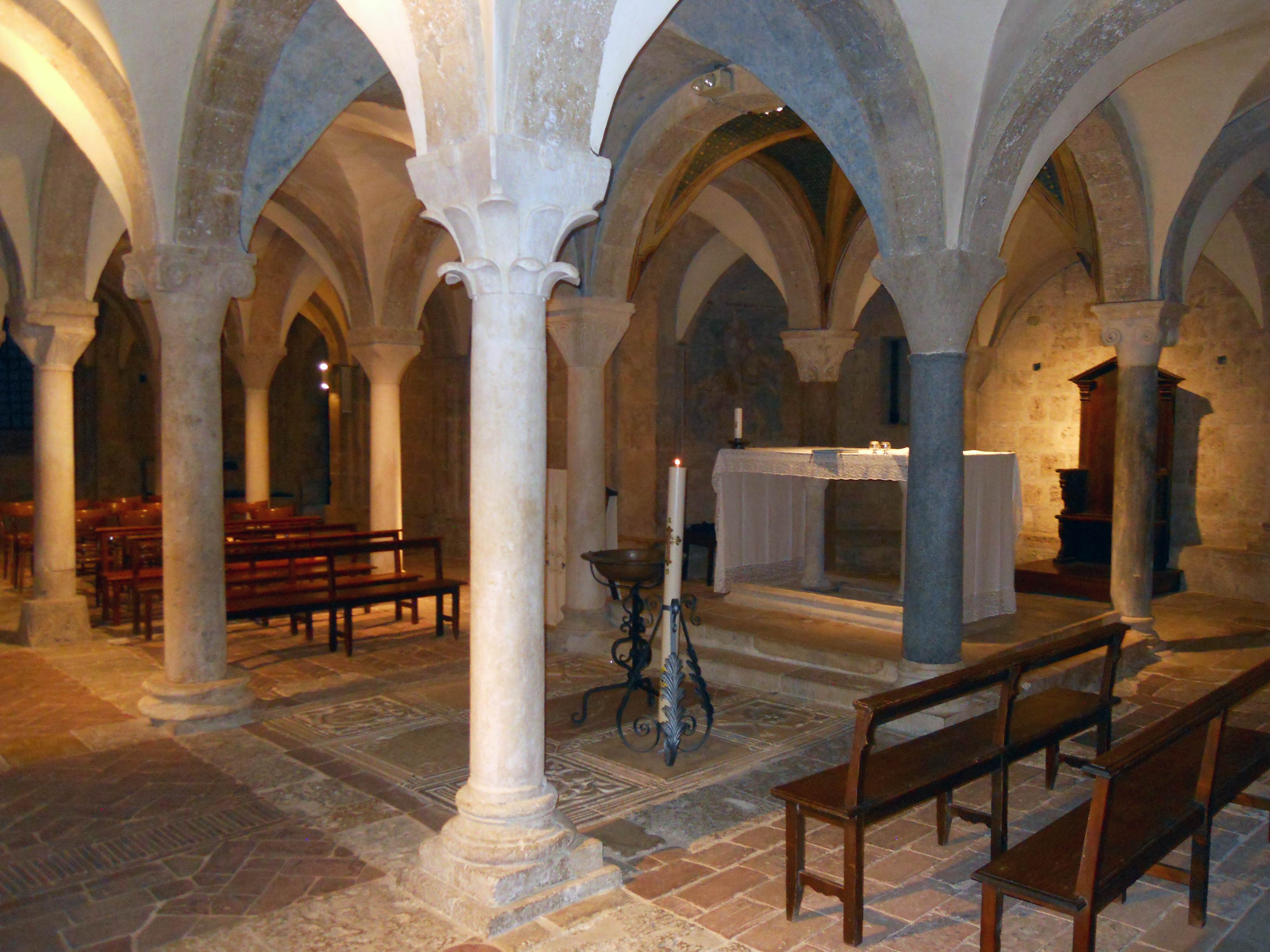 Crypt - Cathedral of Rieti (Lazio, Italy)